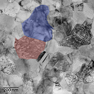 TEM (transmission electron microscope) image taken at NIST of an annealed cobalt iron alloy. The high magnetostriction seen in this alloy is due to the two-phase iron-rich (shaded blue) and cobalt-rich (shaded red) structure and the nanoscale segregation. Credit: Bendersky/NIST Disclaimer: Any mention of commercial products within NIST web pages is for information only; it does not imply recommendation or endorsement by NIST. Use of NIST Information: These World Wide Web pages are provided as a public service by the National Institute of Standards and Technology (NIST). With the exception of material marked as copyrighted, information presented on these pages is considered public information and may be distributed or copied. Use of appropriate byline/photo/image credits is requested.